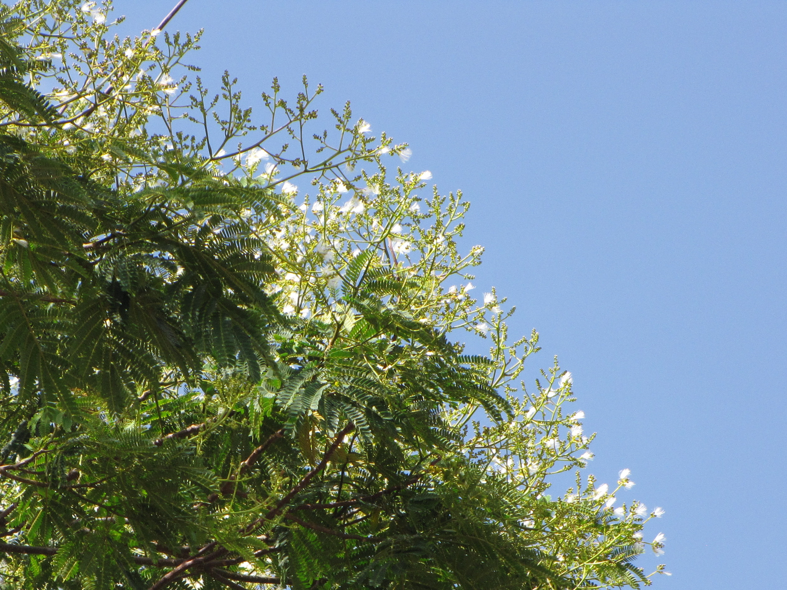 Falcataria moluccana. Flowers and leaves. Ulumalu Haiku, Maui, Hawaii